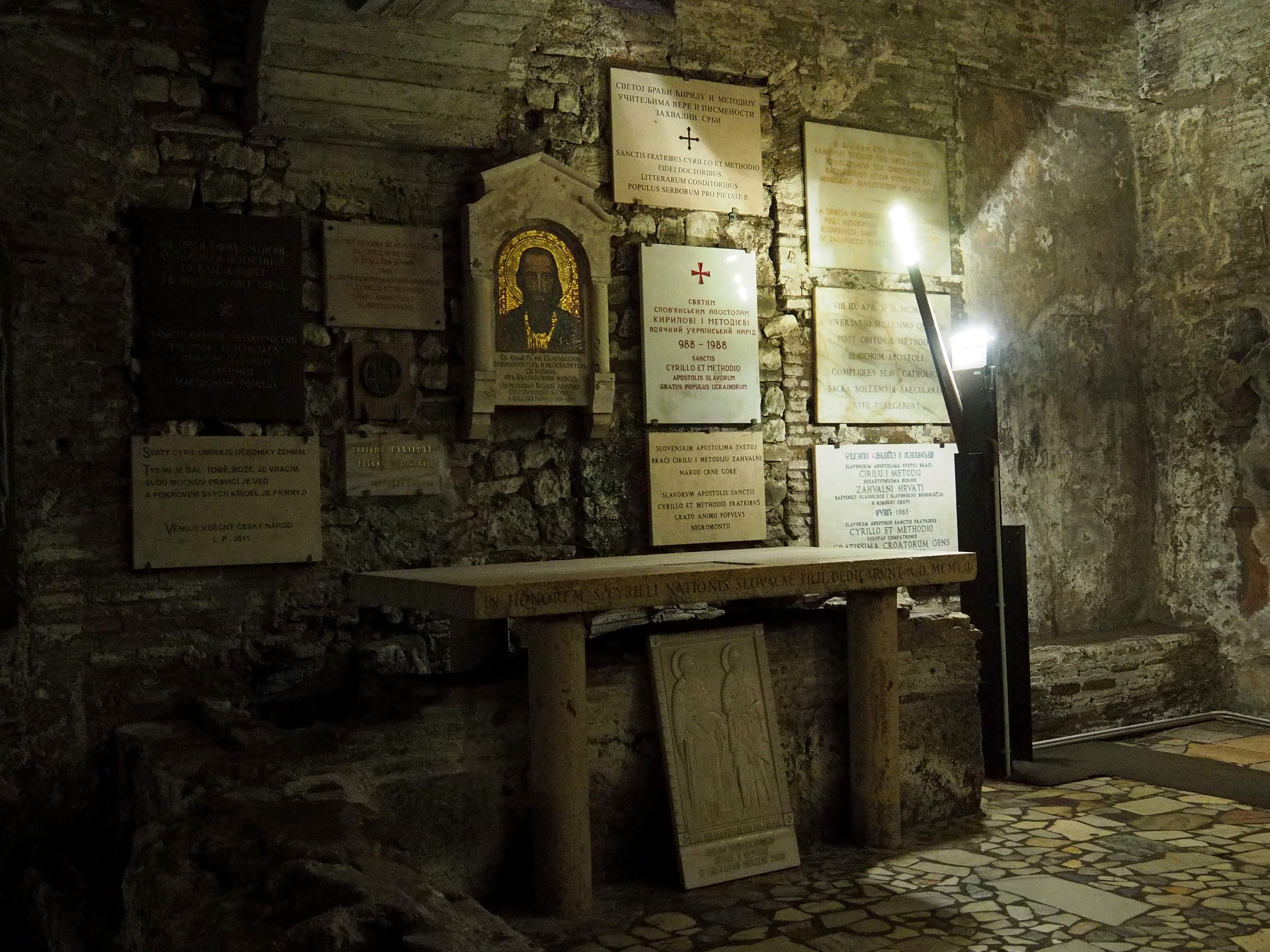 Tomb of Saint Cyril in the Basilica of San Clemente in Rome.